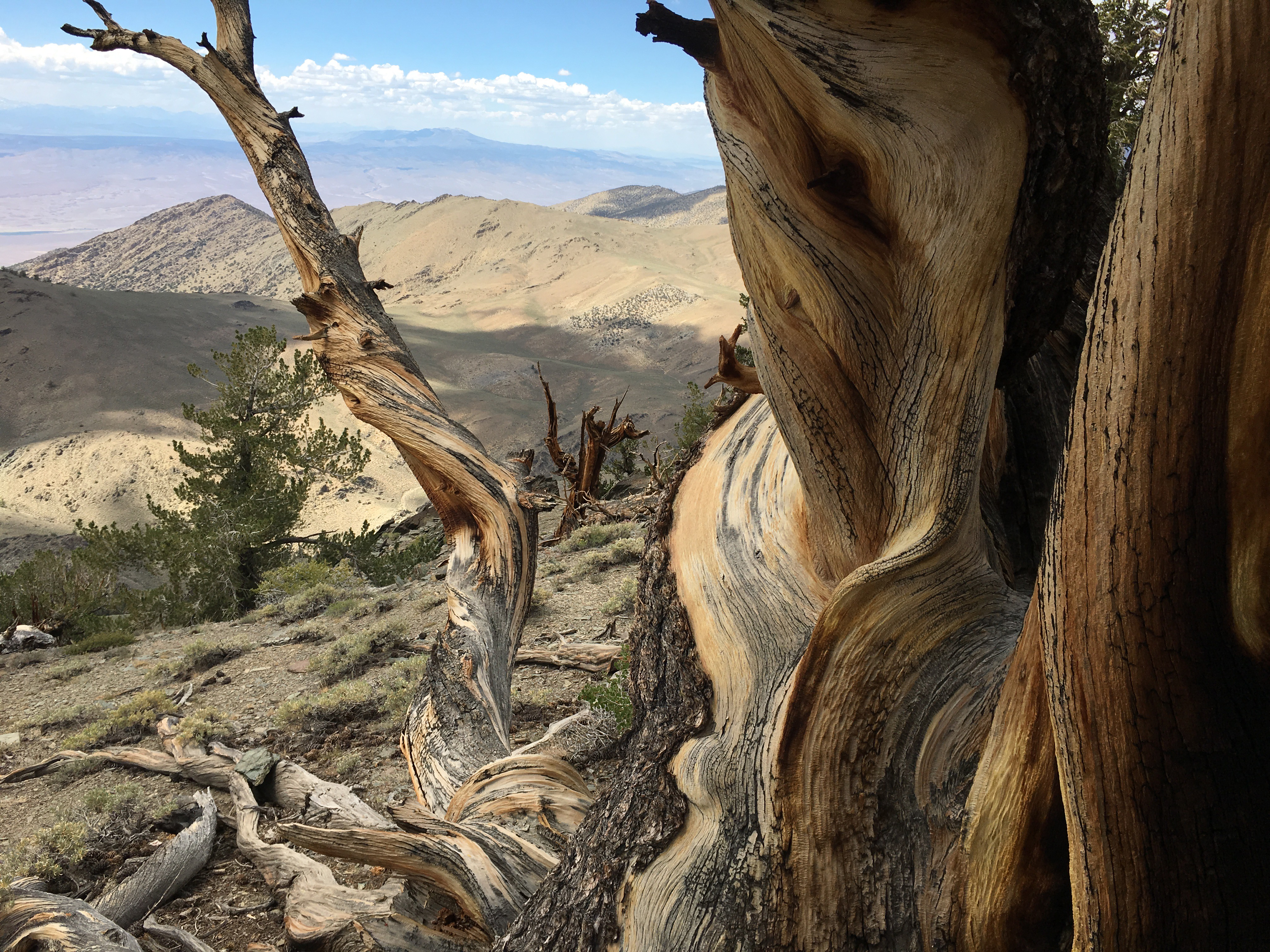 The Ancient Bristlecone Pine Forest is home to the oldest trees in the world. Photo taken at 11,000 foot elevation. Schulman and Patriarch groves are located approximately 30 miles from Bishop, California. A world-class Visitors Center provides excellent interpretive information.